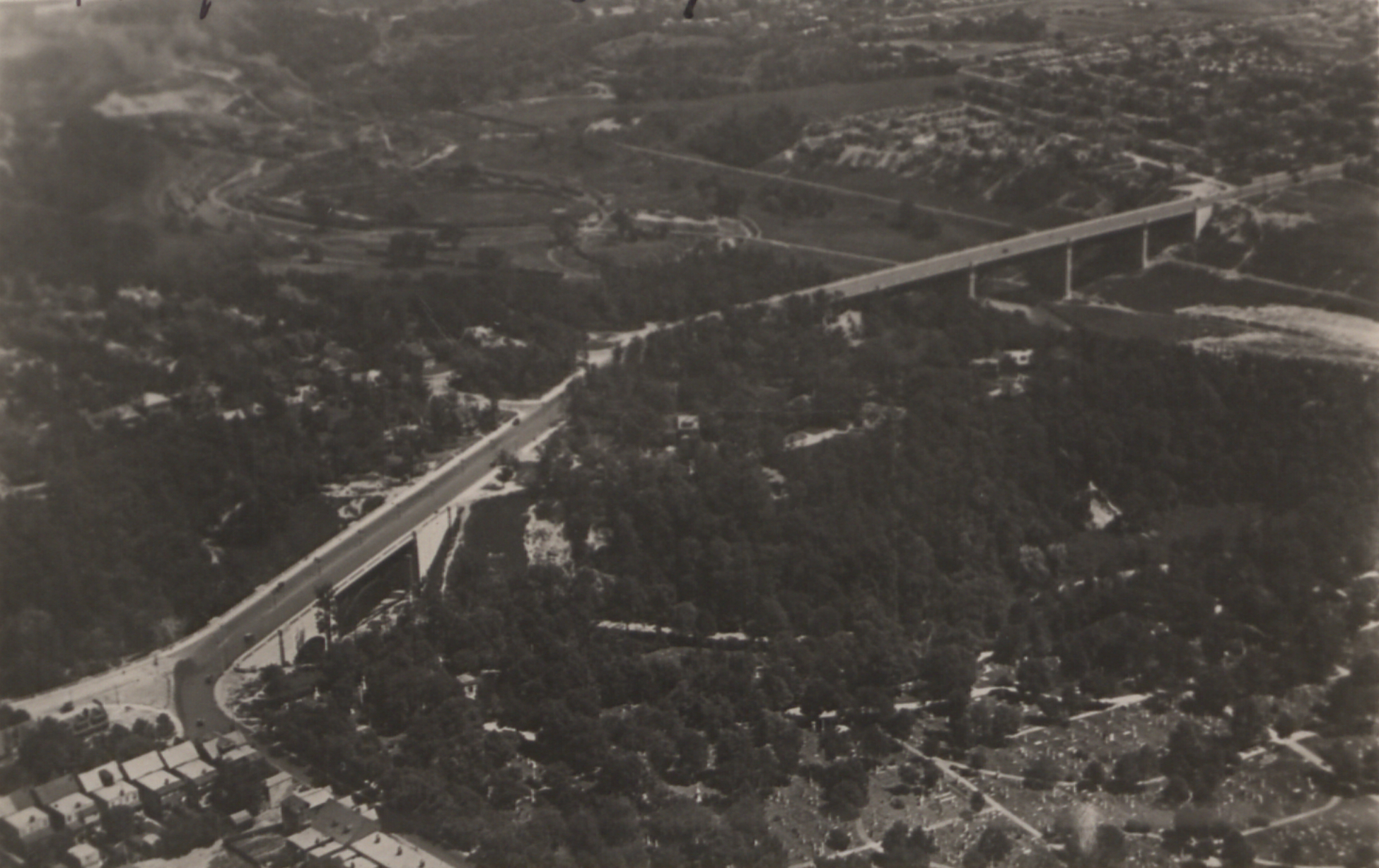 Original caption: “Toronto from the Air.”